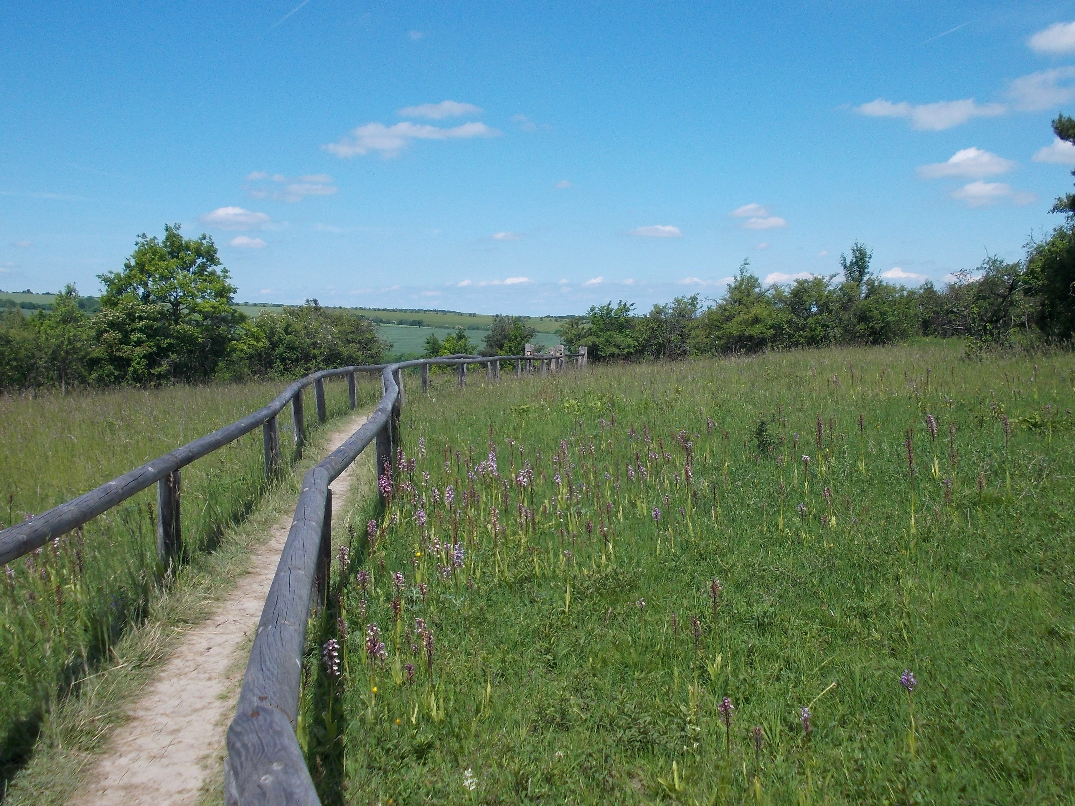 On the orchid trail in the Tote Täler ("Dead Valleys") nature reserve in the Burgenlandkreis (Saxony-Anhalt)